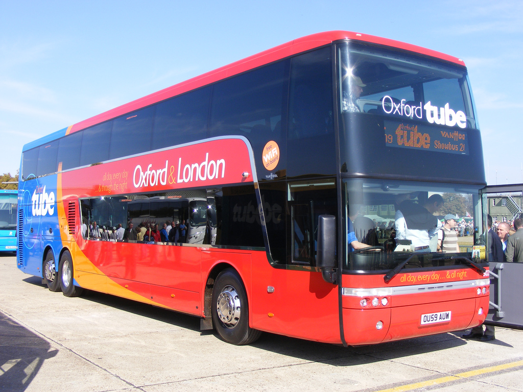 Tri-axle coach (OU59 AUW) of the Oxford Tube, one of the operators on the high-frequency Oxford to London coach route in England. The coach is a Van Hool TD927 Astromega integral coach fitted with Wi-Fi, delivered new to Thames Transit (a Stagecoach subsidiary and original creator of the Oxford Tube brand) in September 2009. It is pictured at the Showbus 2009 rally.